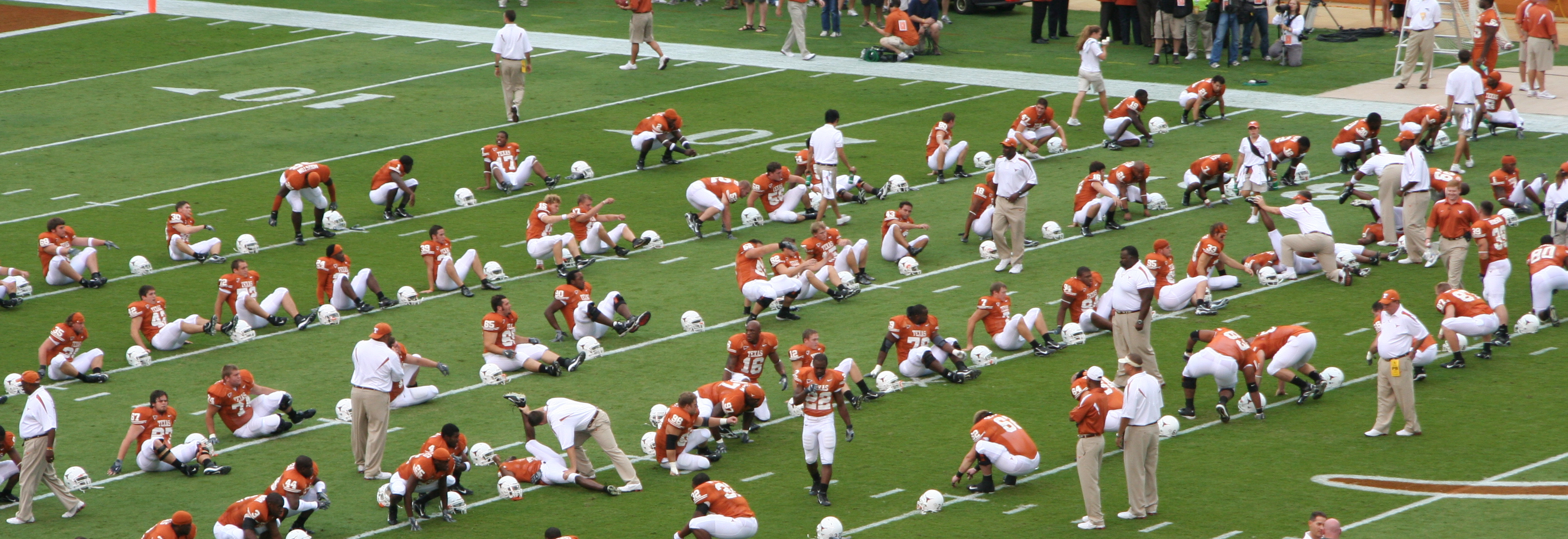 Texas football team doing warmups prior to Baylor game - cropped